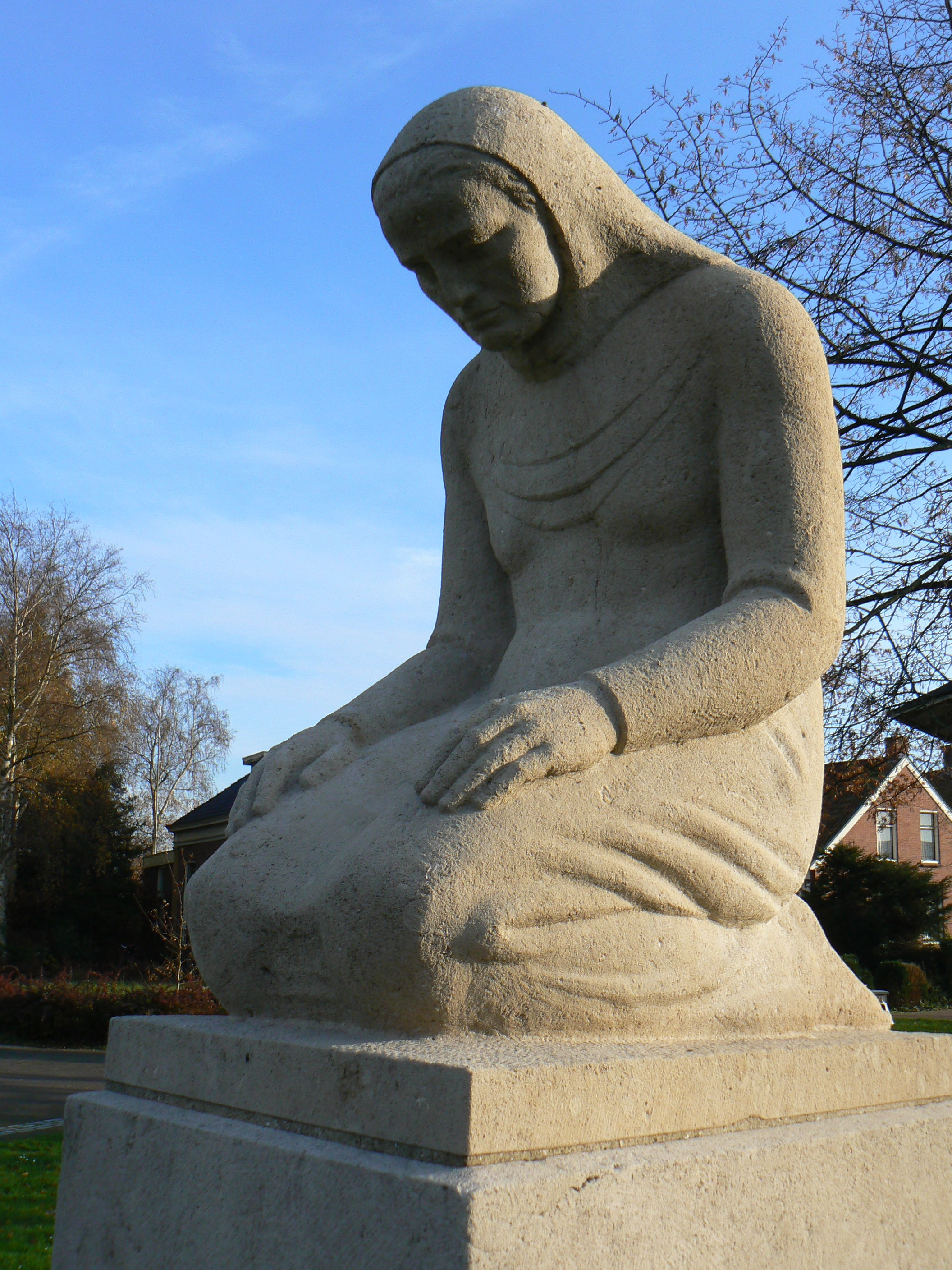 War memorial 1940-45 by Hans Reicher (1948) in Nieuweschans/The Netherlands